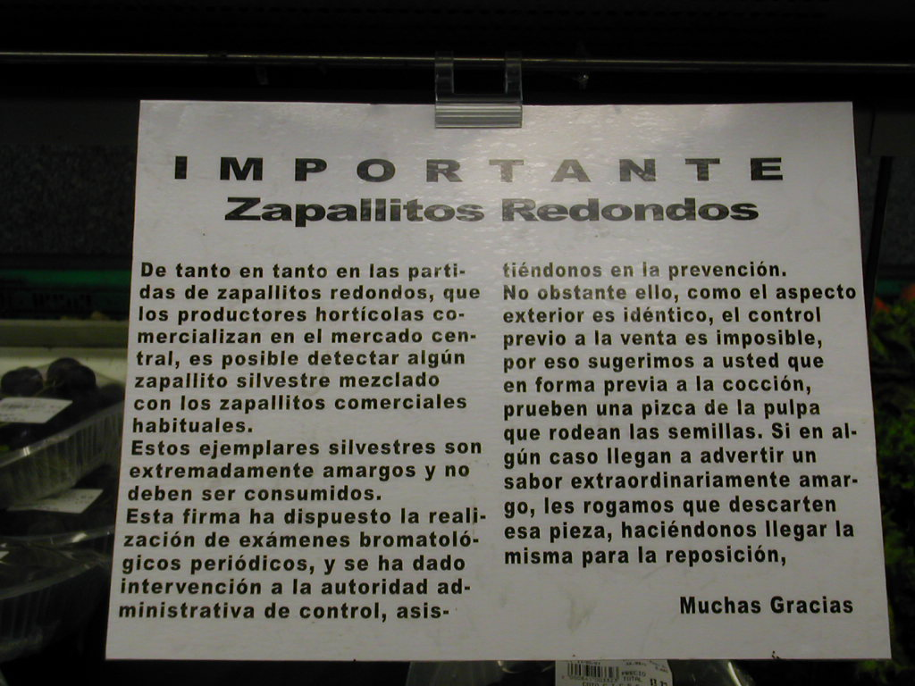 Preventive post on possible bitter fruits of Cucurbita maxima zapallito type mixed with normal fruit. Rosario city, Santa Fe province. Argentina. Novembrer 2007.